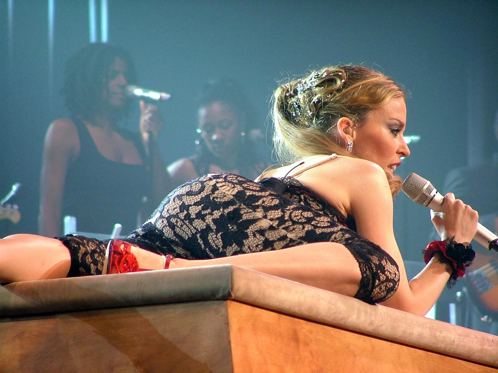 Kylie Minogue live in Paris - On the Horse - April 20th 2005